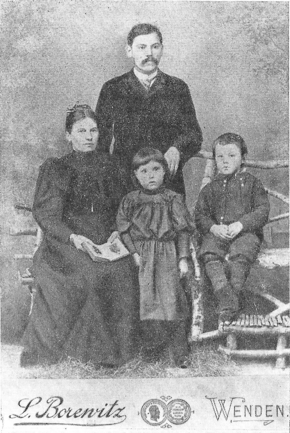 Aleksandr Drevin with his father, mother and older sister. About 1893.